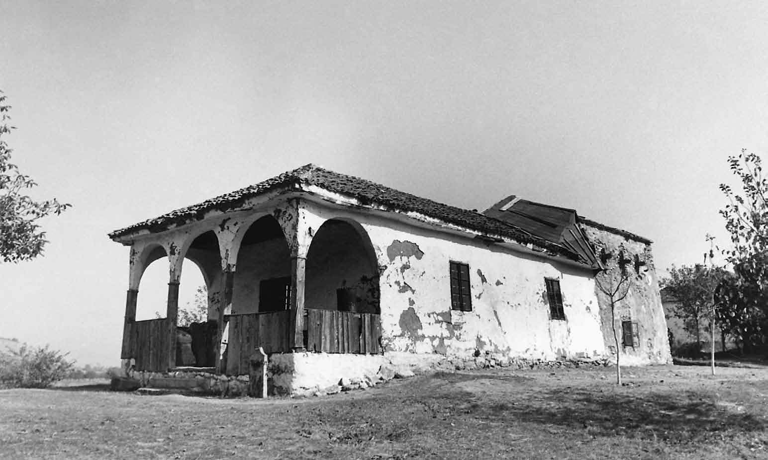 Црква Свете Петке у насељу Станичење надомак Пирота, сликана са јужне стране